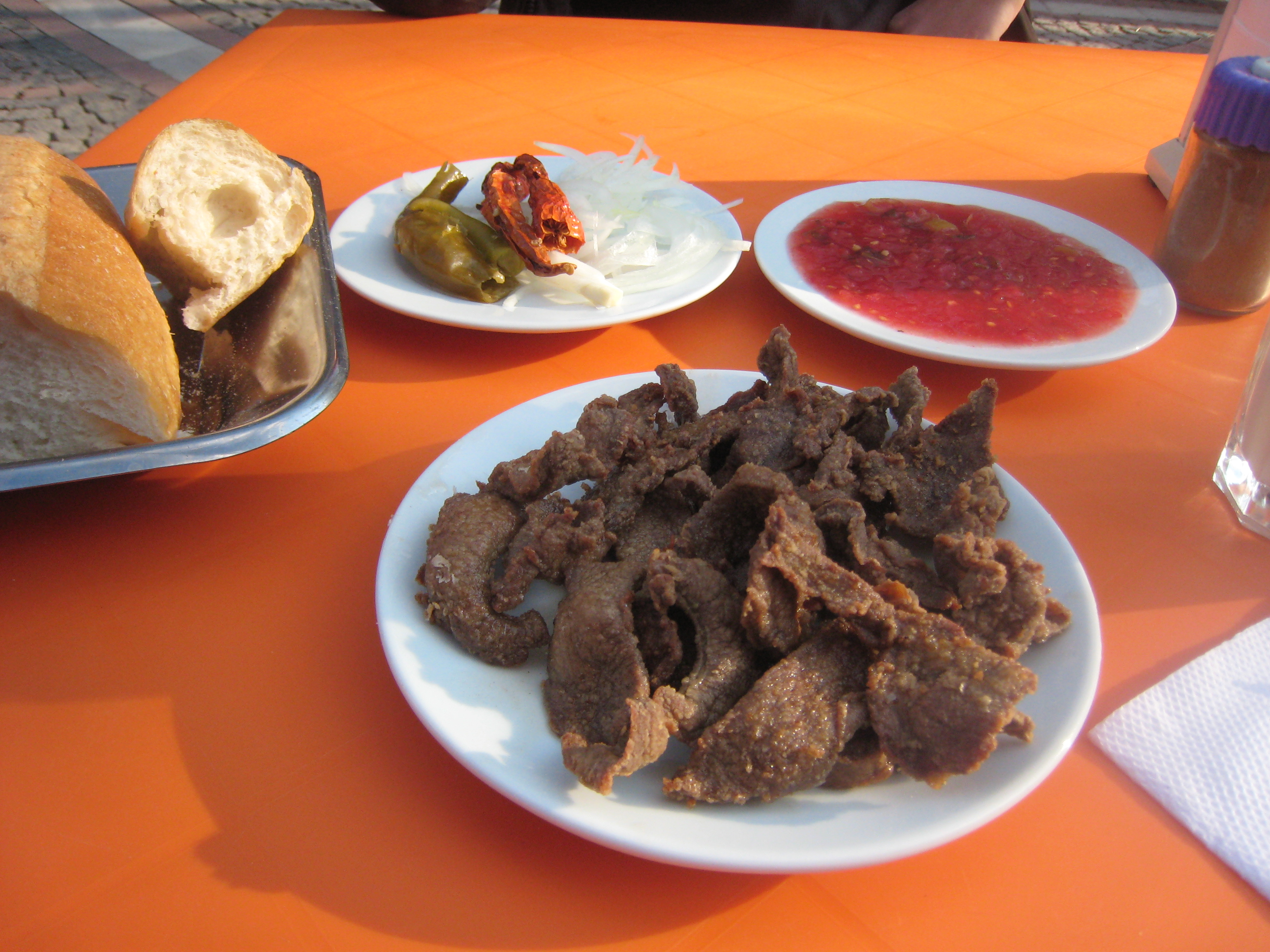 Turkish style liver from Edirne (Tava ciğer or Erdine ciğer)